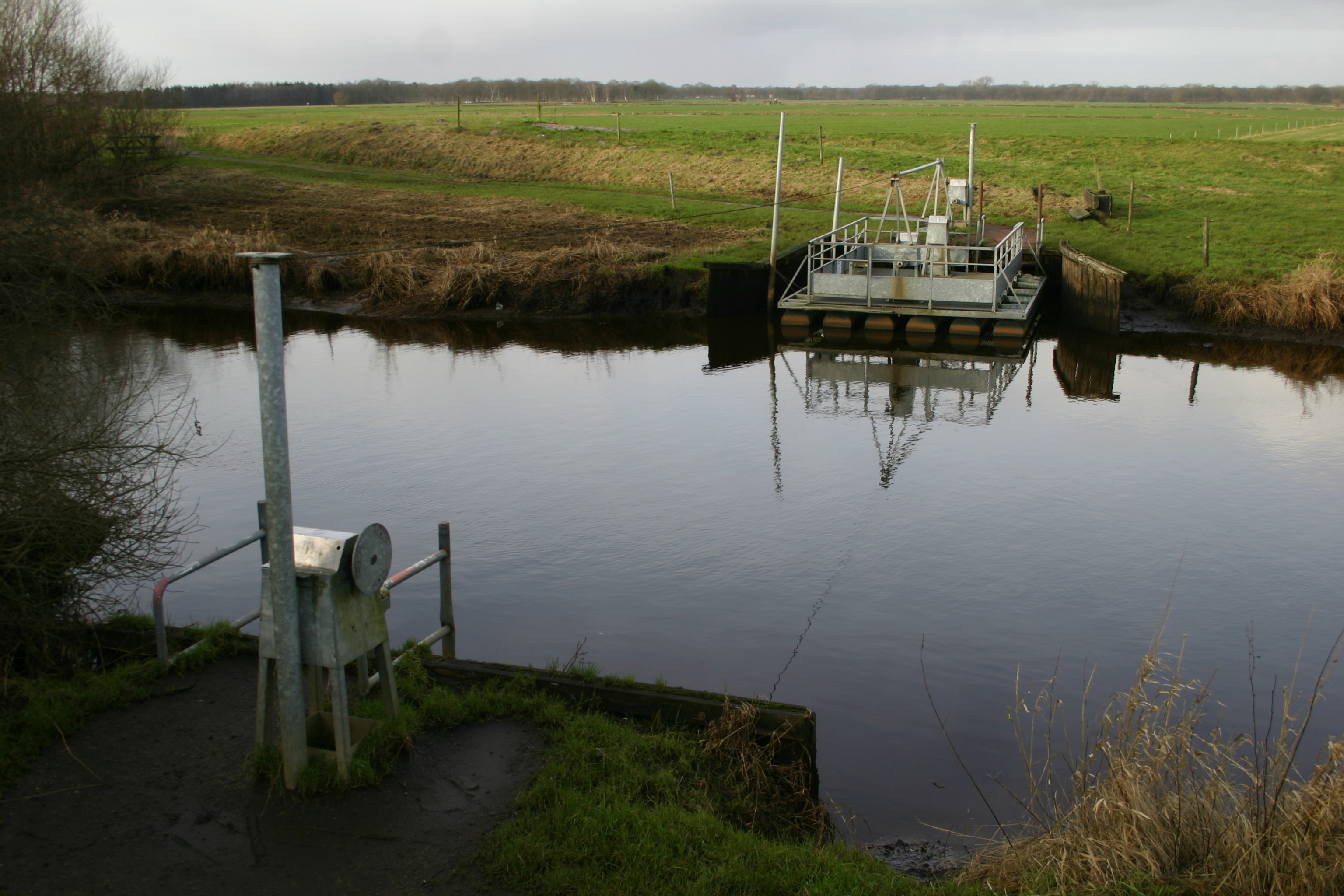 Manually operated ferry over a small river named Holtlander Ehetief, district of Leer, East Frisia, Germany. Travellers operate the ferry on their own.